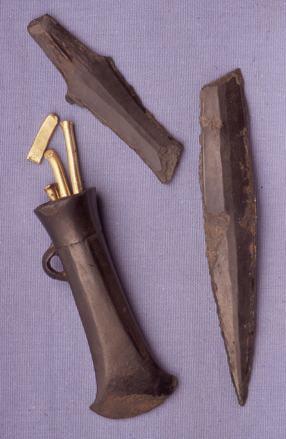 2002T300, Rossett, Wales This was added from the site called under the name portableantiquities. See source for details.